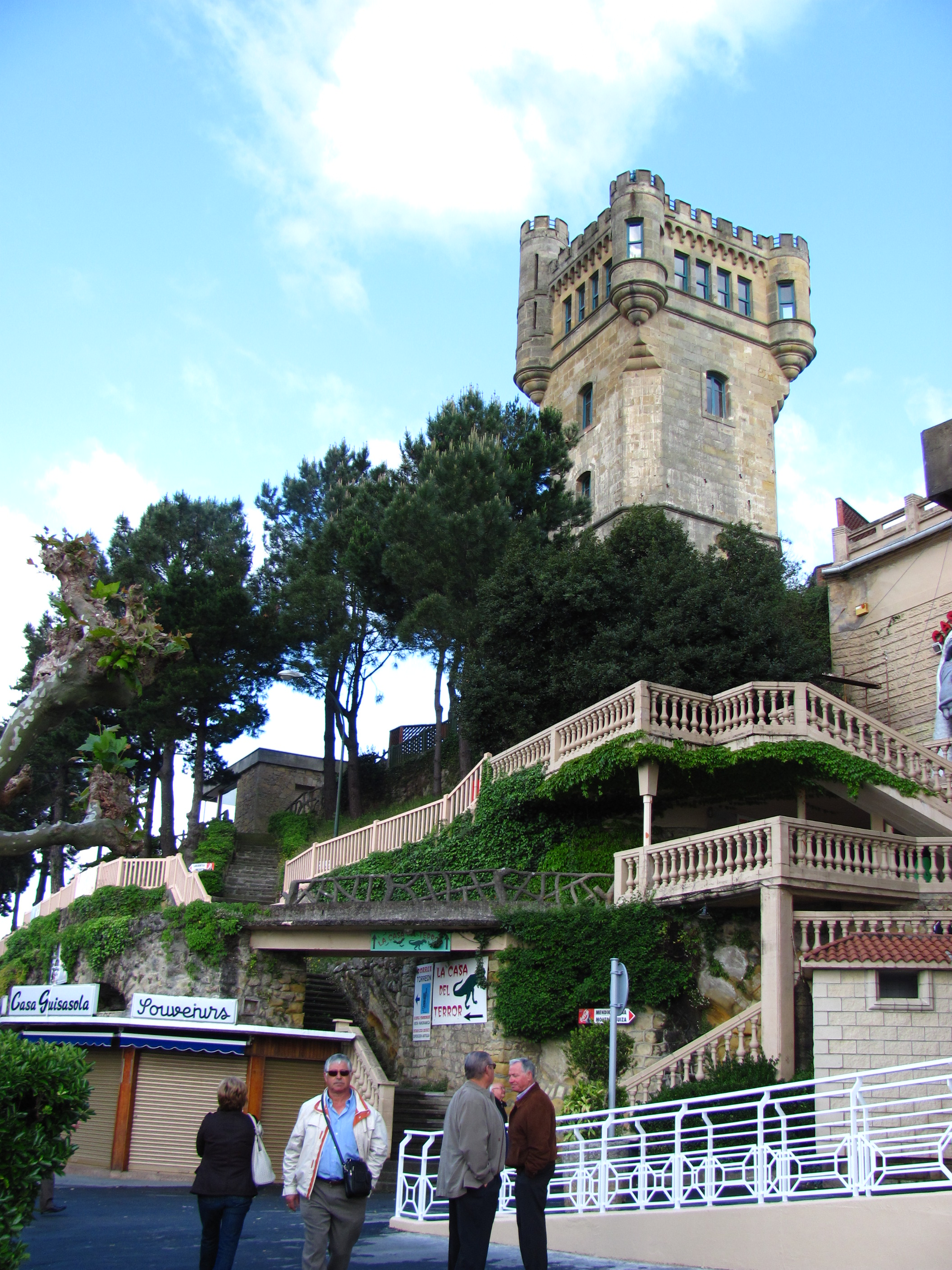 Igeldo amusement park.